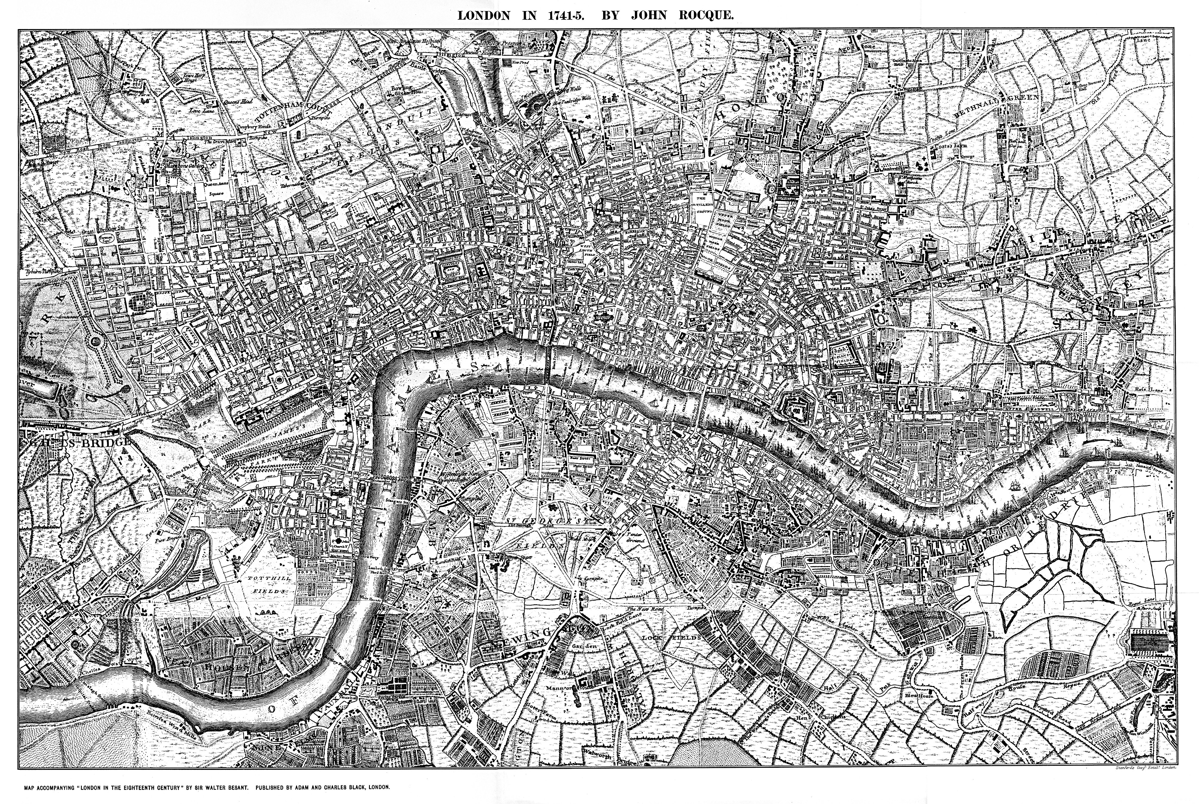 Original of this map is in the British museum, and is 13 feet by 6.75 feet in 24 sheets. This image is not the whole map, but the central portion reproduced in "Maps of Old London", 1908, and is thus missing the turn of the river to the south at the east side of the map (approximately a third of the rightmost sheets). However, the online version of the 1746 edition at though apparently complete and showing 24 sheets, does not cover all the area shown on this version, which shows Vauxhall and Nine Elms to the south. Rocque has blocked in buildings only where they are adjacent to gardens, fields, and other open ground, not in the central built-up area of the city; this makes his map somewhat clearer than some other historical maps. As with many such images, the dissected sheets are not necessarily accurately re-aligned or copied to the same density in the reproduction originally printed; the scanned image therefore reproduces these faults.